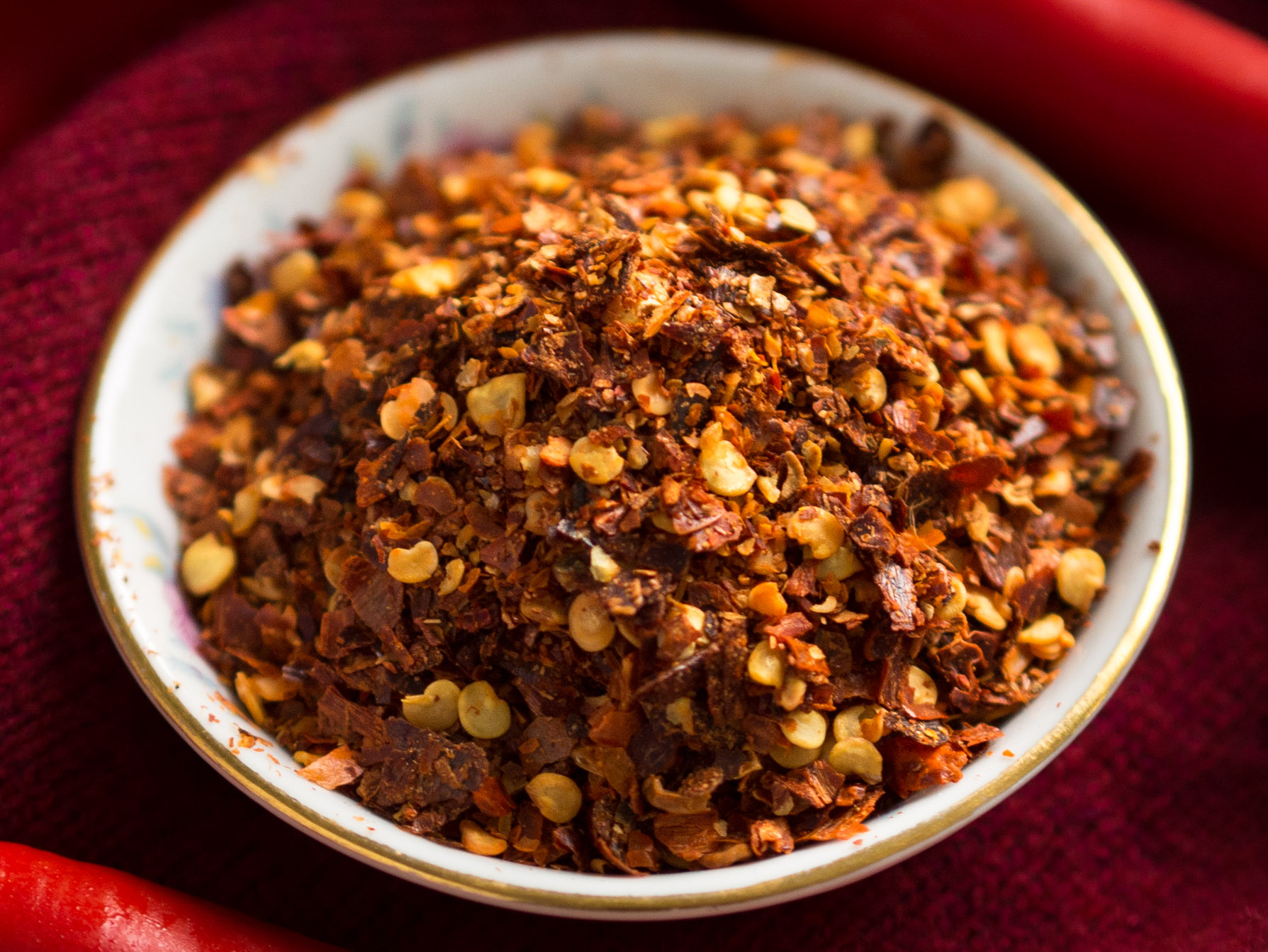 Chilli flakes